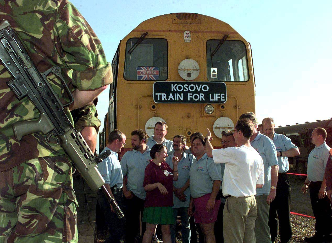 Crew members of the British train "Kosovo Train for Life" pose in front of their engine at the local railway station on Monday, 27 September 1999 after they finished their 12 day mission. The ten-wagon train left London on 16 September and travelled some 4,200km through 11 European countries with humanitarian aid. The train aid has been organized by United Nations High Commissioner for Refugees (UNHCR) and Kosovo Force (KFOR).